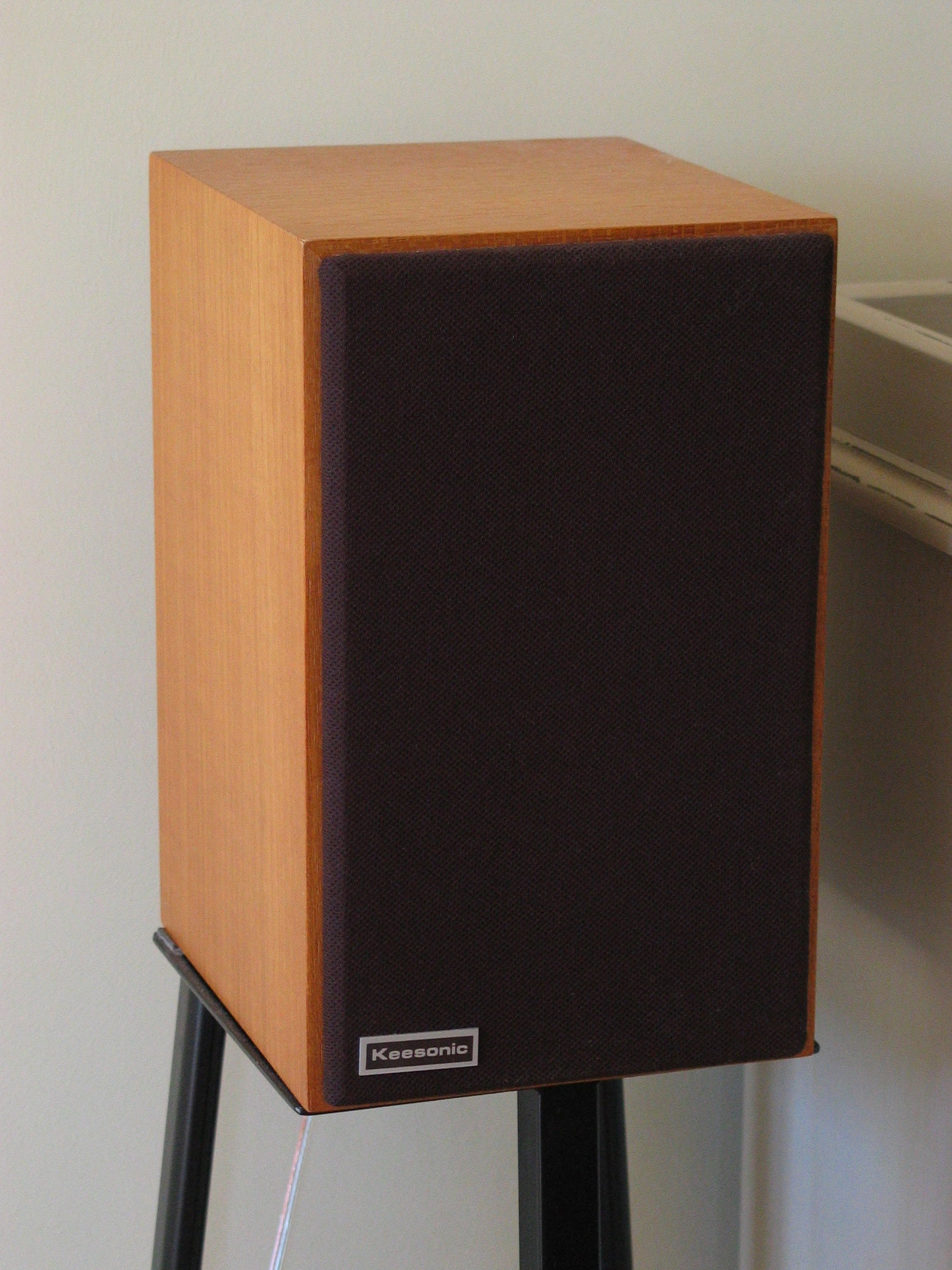 Keesonic Kub; compact, two way, bass reflex loudspeaker designed by Peter Keeley and manufactured in the UK in the 1980s. Grille installed in this photo.